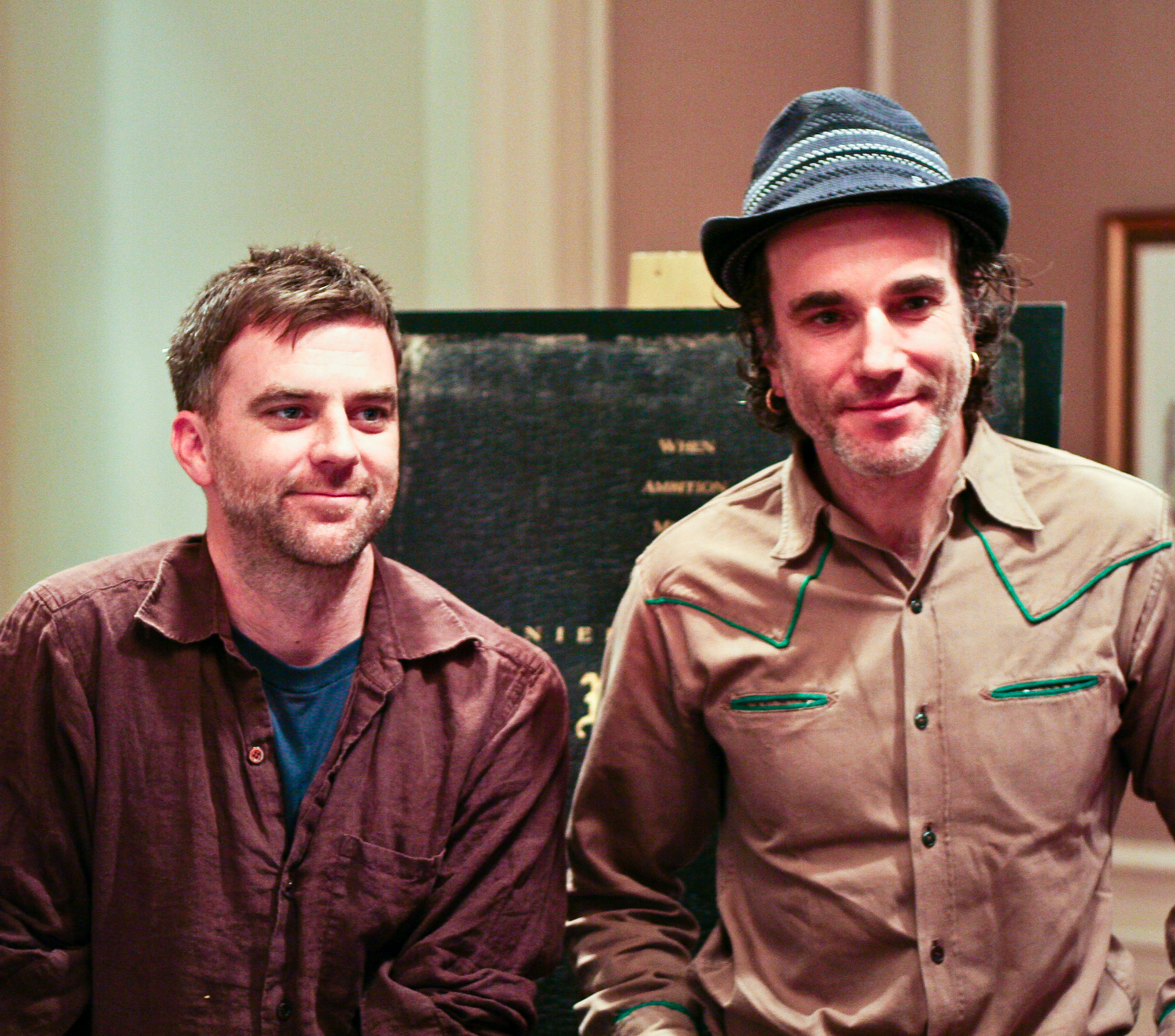 Director Paul Thomas Anderson and actor Daniel Day-Lewis in New York on December 10, 2007